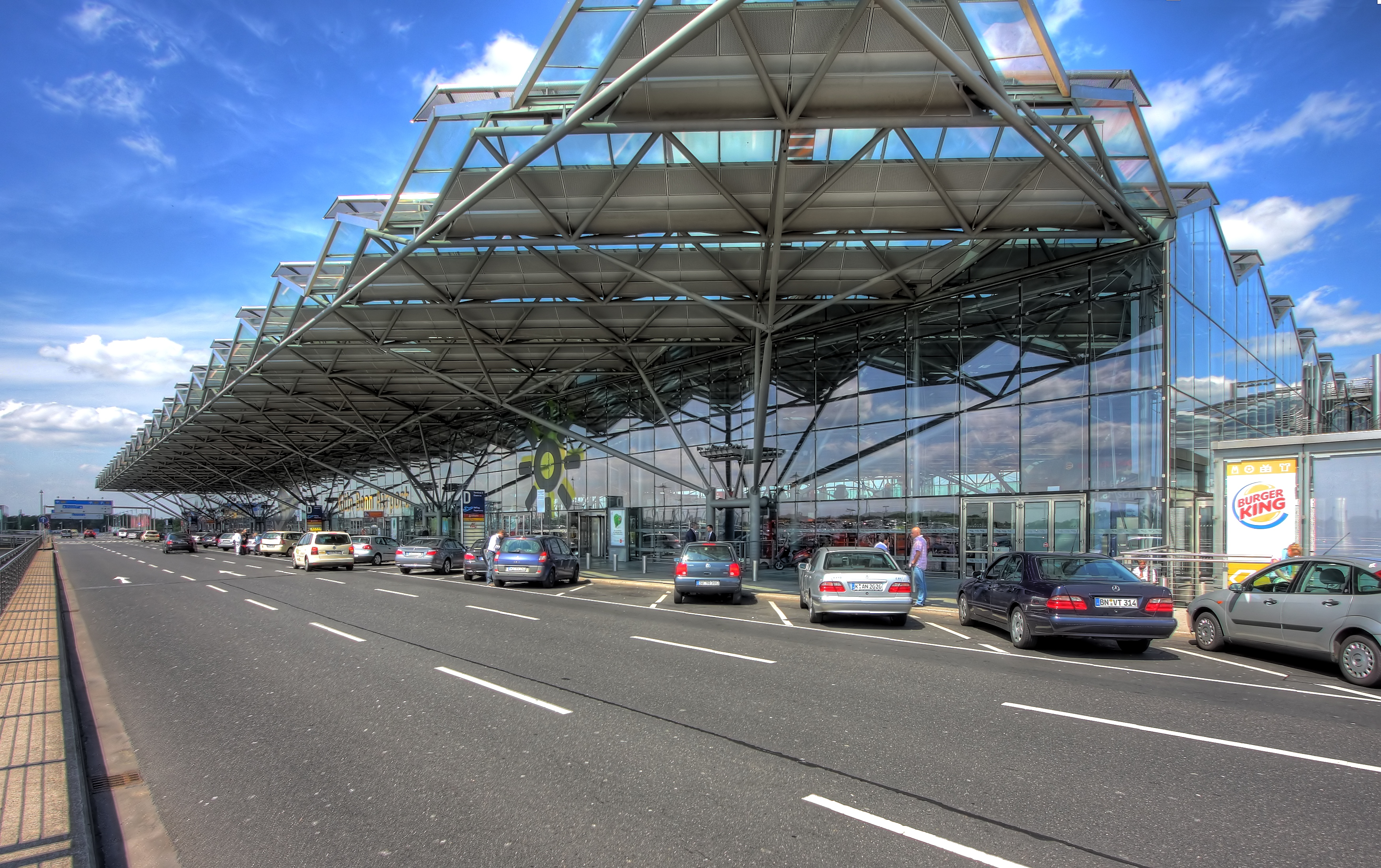 Airport Cologne/Bonn - Driveway to the departure level of terminal 2